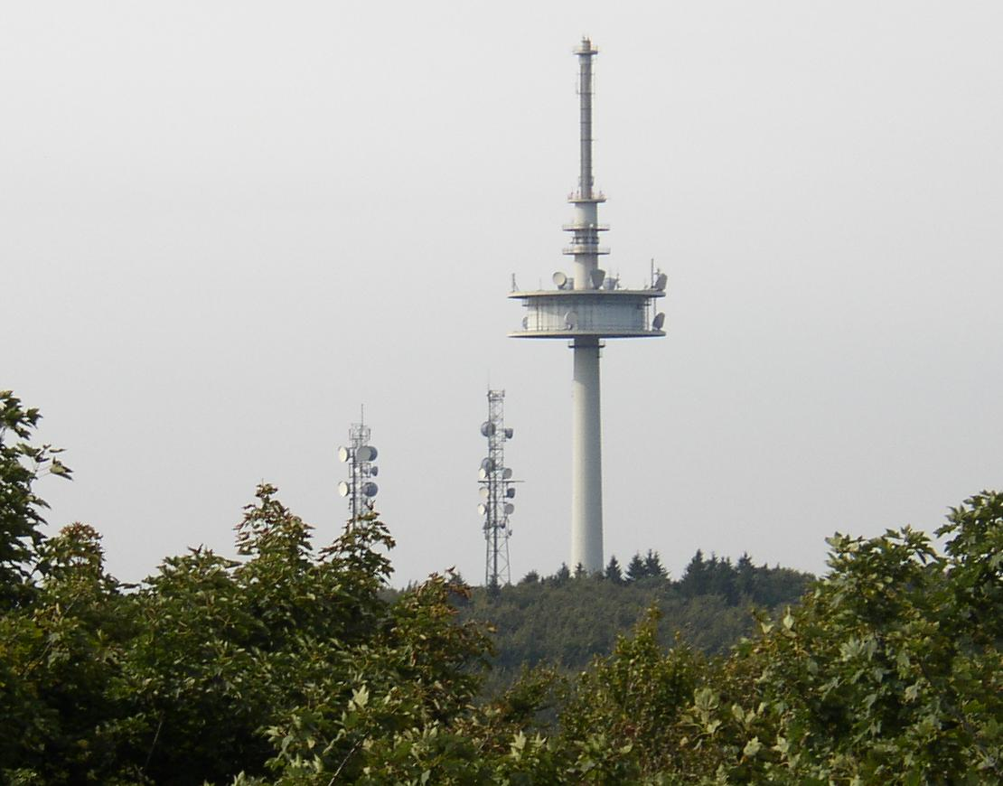 Telecommunication tower on the Hoherodskopf in Hesse, Germany